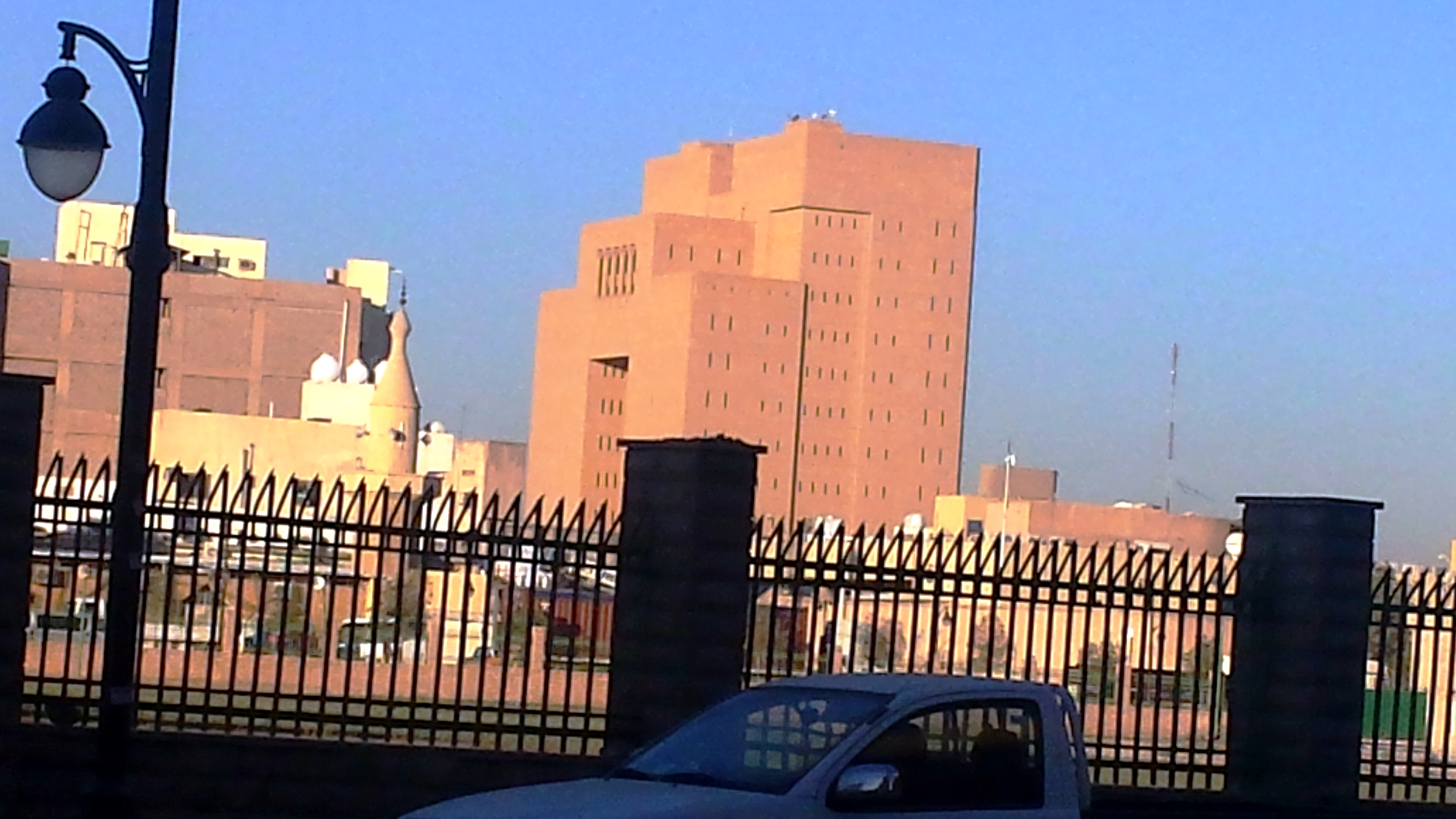 The High Court Building falls in Qasr Al-Hukm District, Riyadh, Saudi Arabia.